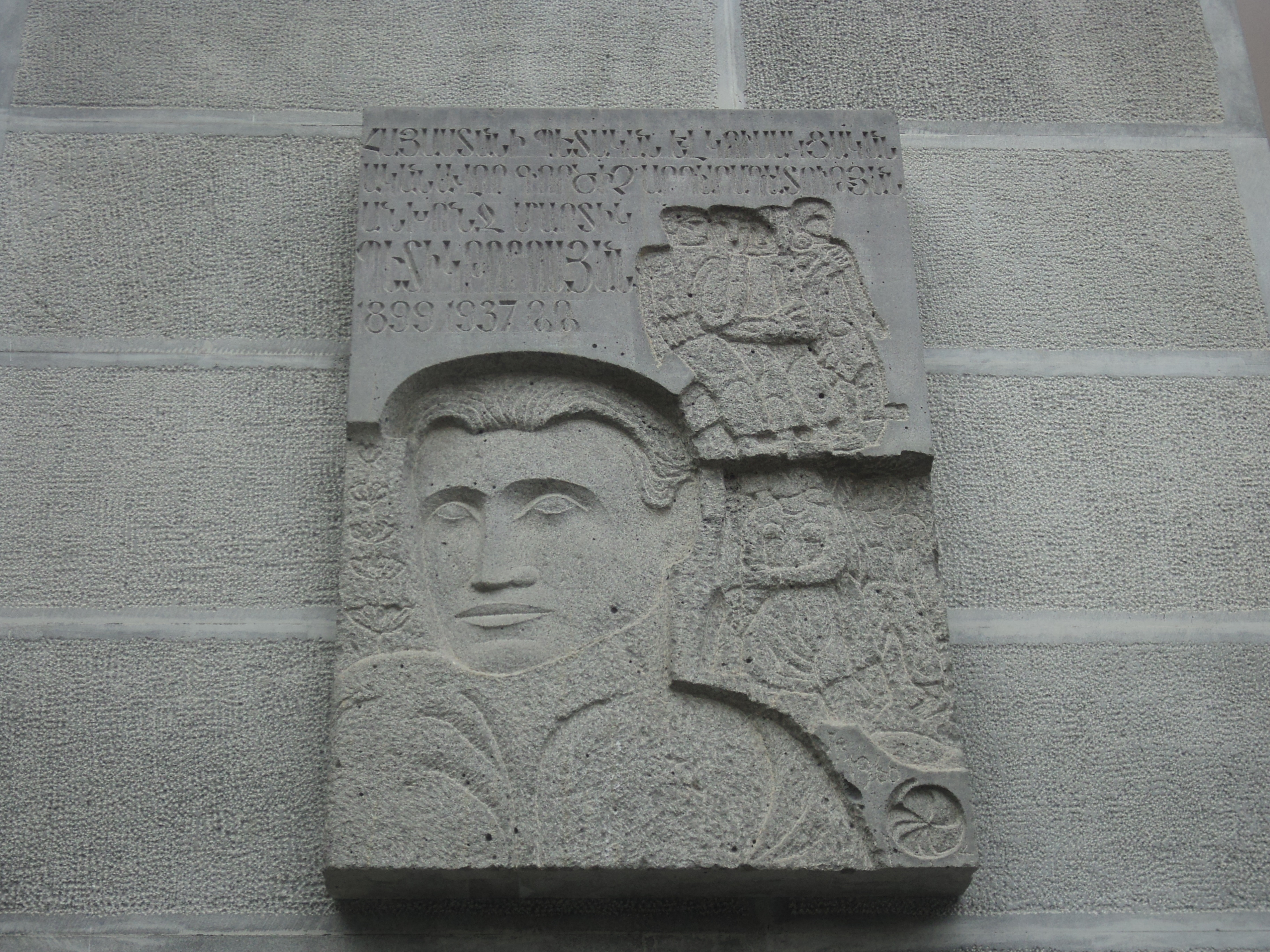 Պետիկ Թորոսյանի հուշատախտակը ՀՀ դատախազության շենքի ճակատին, քանդակագործ` Լևոն Թոքմաջյան, 1971